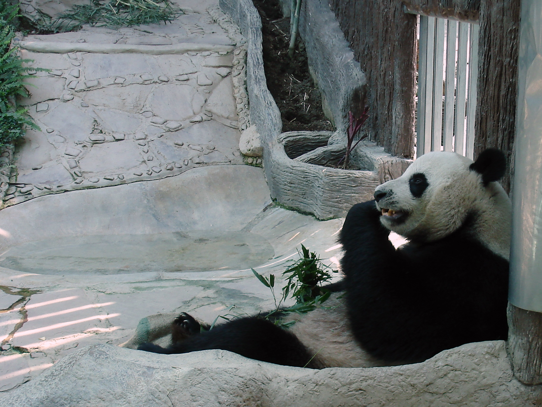 Photograph of Giant Panda at Chiang Mai Zoo, Thailand